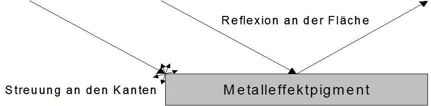 The picture shows the optical processes, when light rays fall onto a single metal effect pigment.